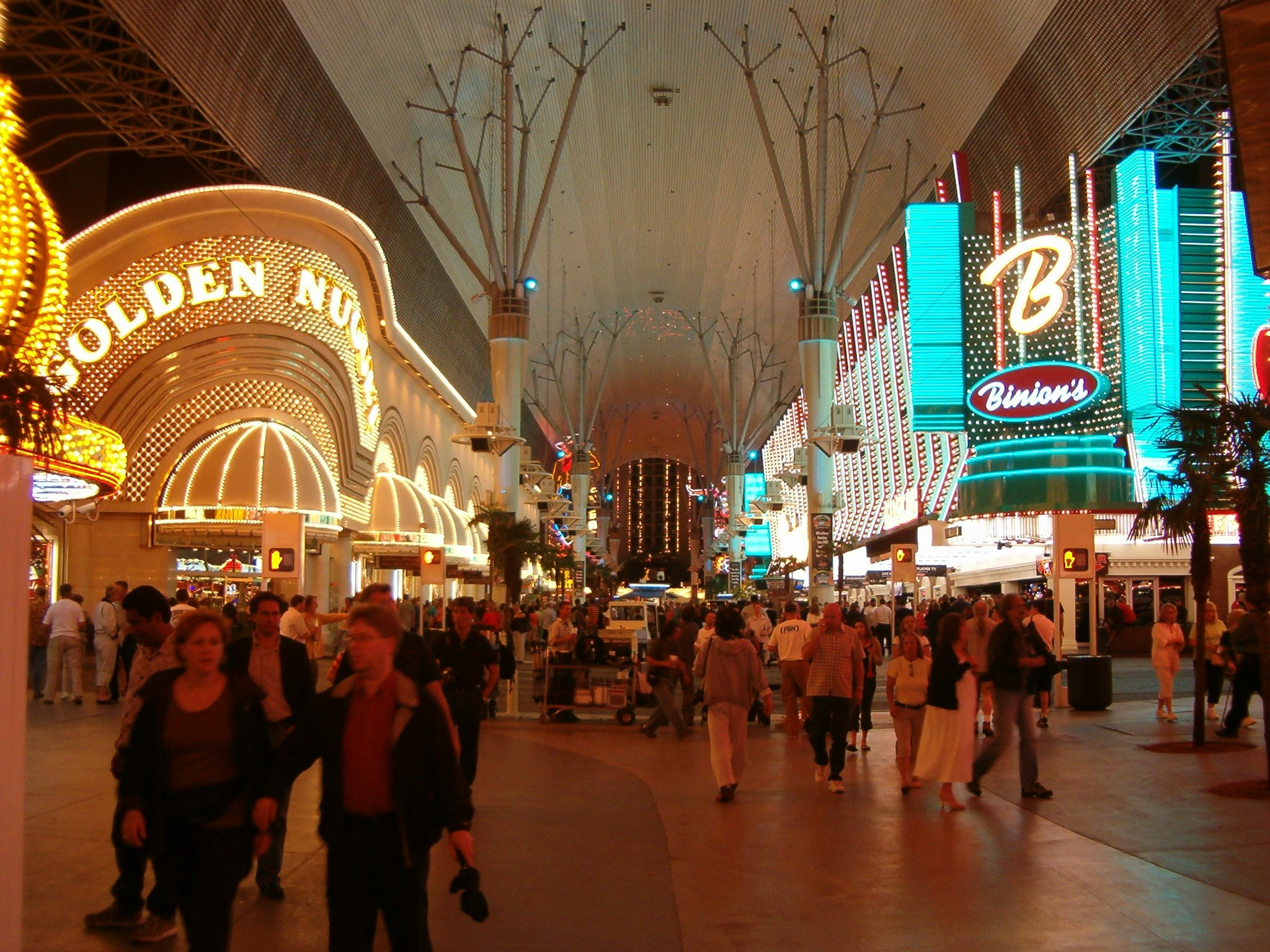 The Fremont Street Experience — at night, in Downtown Las Vegas. With the signs of the Golden Nugget Casino on the left, and neon Binion's Gambling Hall and Hotel on the right.